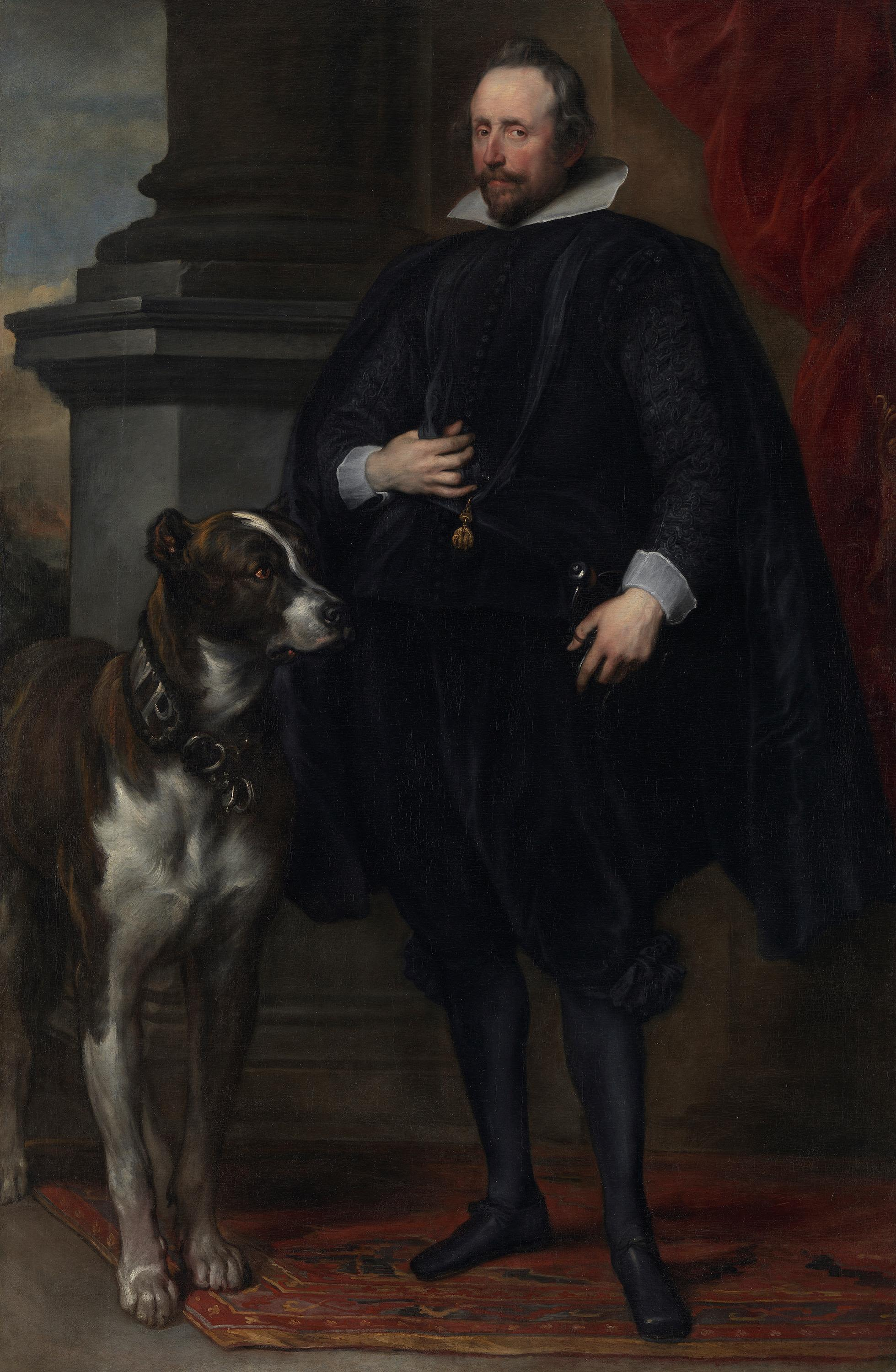 Wolfgang Wilhelm, Count Palatine of Neuburg